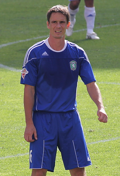 Dmitry Michkov